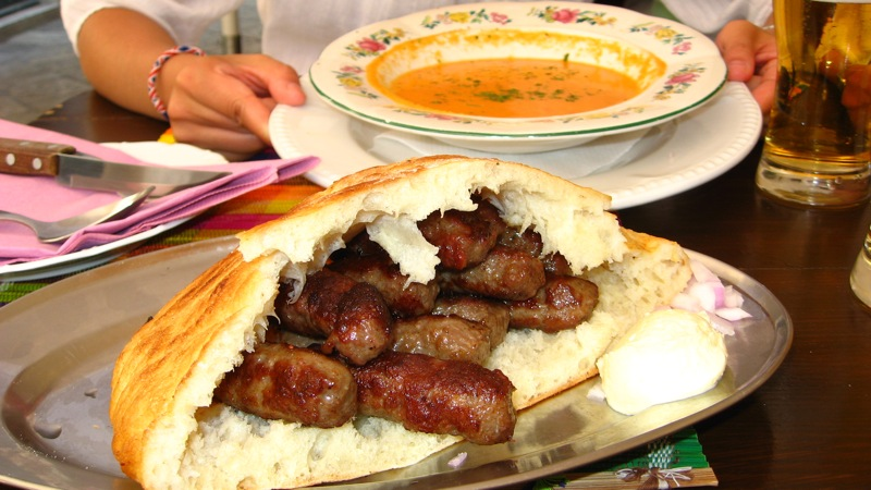 10 sausages inside a pita served with kajmak - a buttery soft of cream